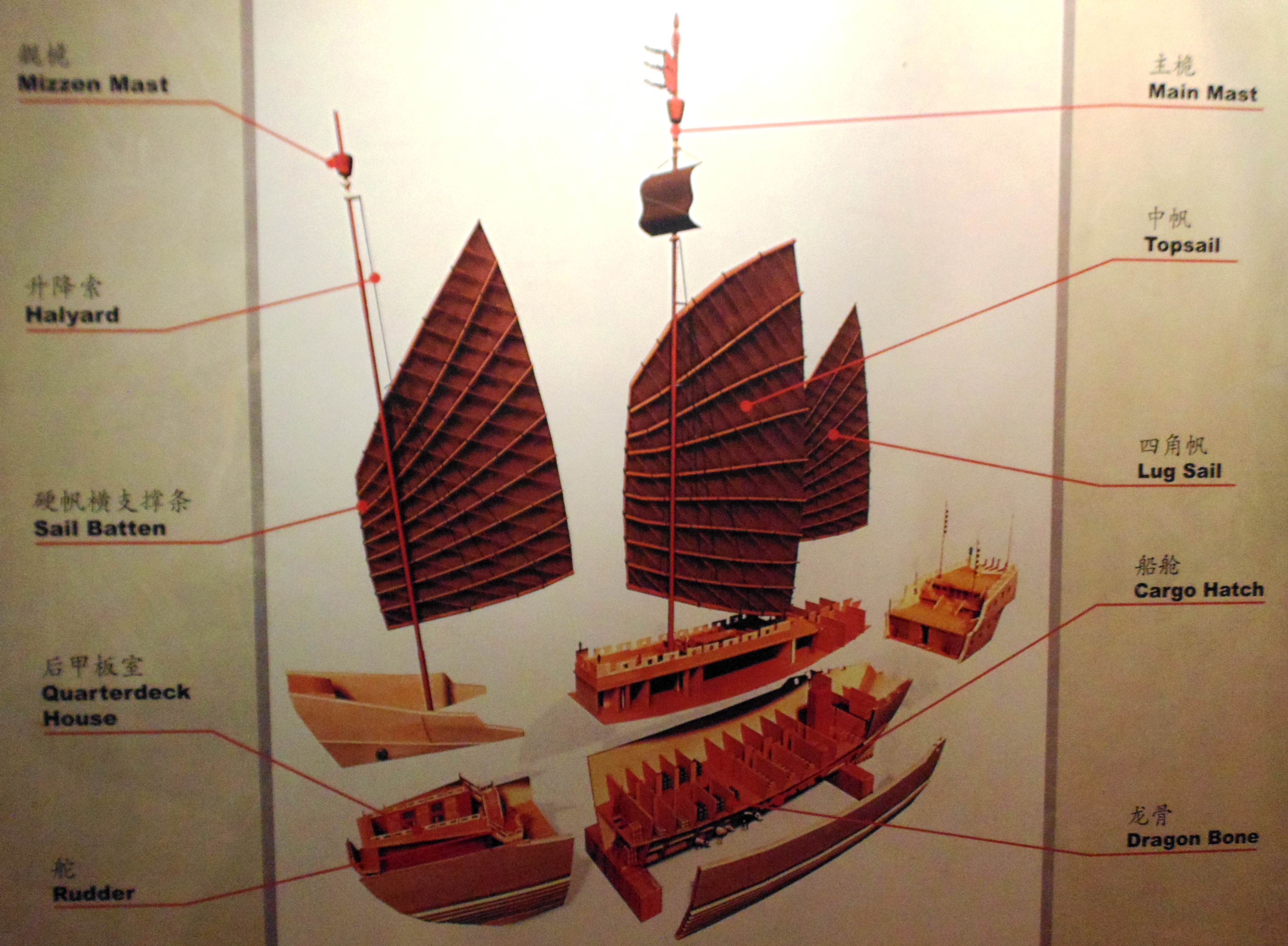 Cheng Ho Cultural Museum - Exhibition